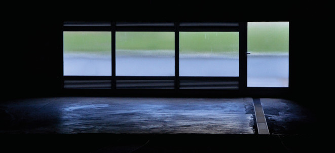 Sven Kierst, Exit, art photography, 55 cm x 120 cm